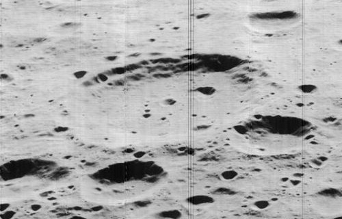 Oblique view of Shayn, on the far side of the moon, facing west.